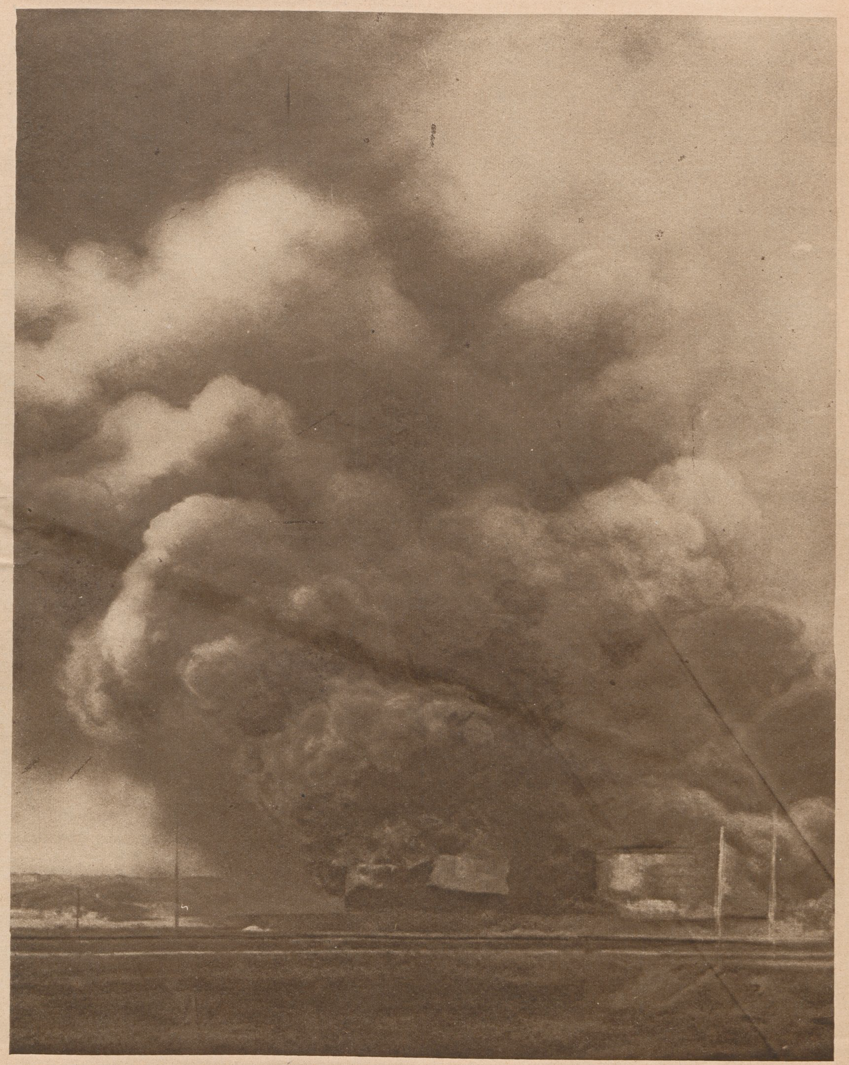 Oil reservoir from the port of Constanța, bombed by the German troops, 1916